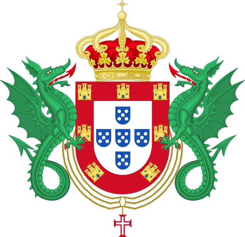 Coat of Arms of the Kingdom of Portugal under the House of Braganza and the House of Braganza-Saxe-Coburg and Gotha. Based on this 1760 work found here.